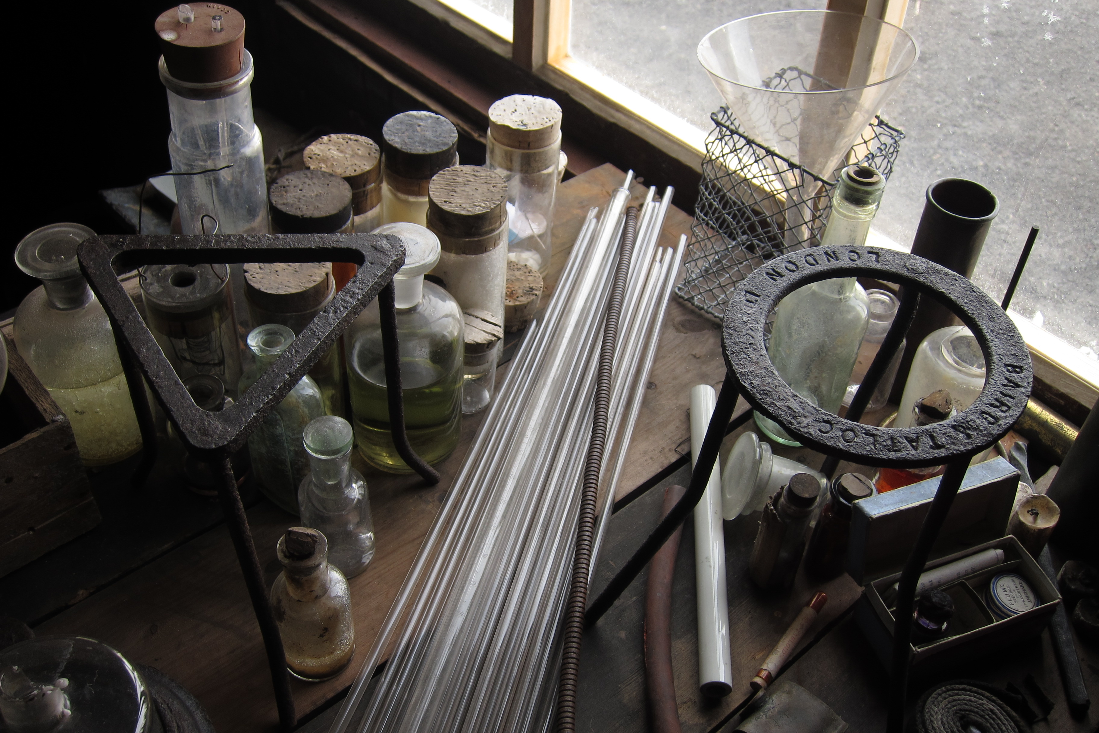 Scientific instruments in situ, at Robert Falcon Scott's Terra Nova Hut, Cape Evans, Antarctica